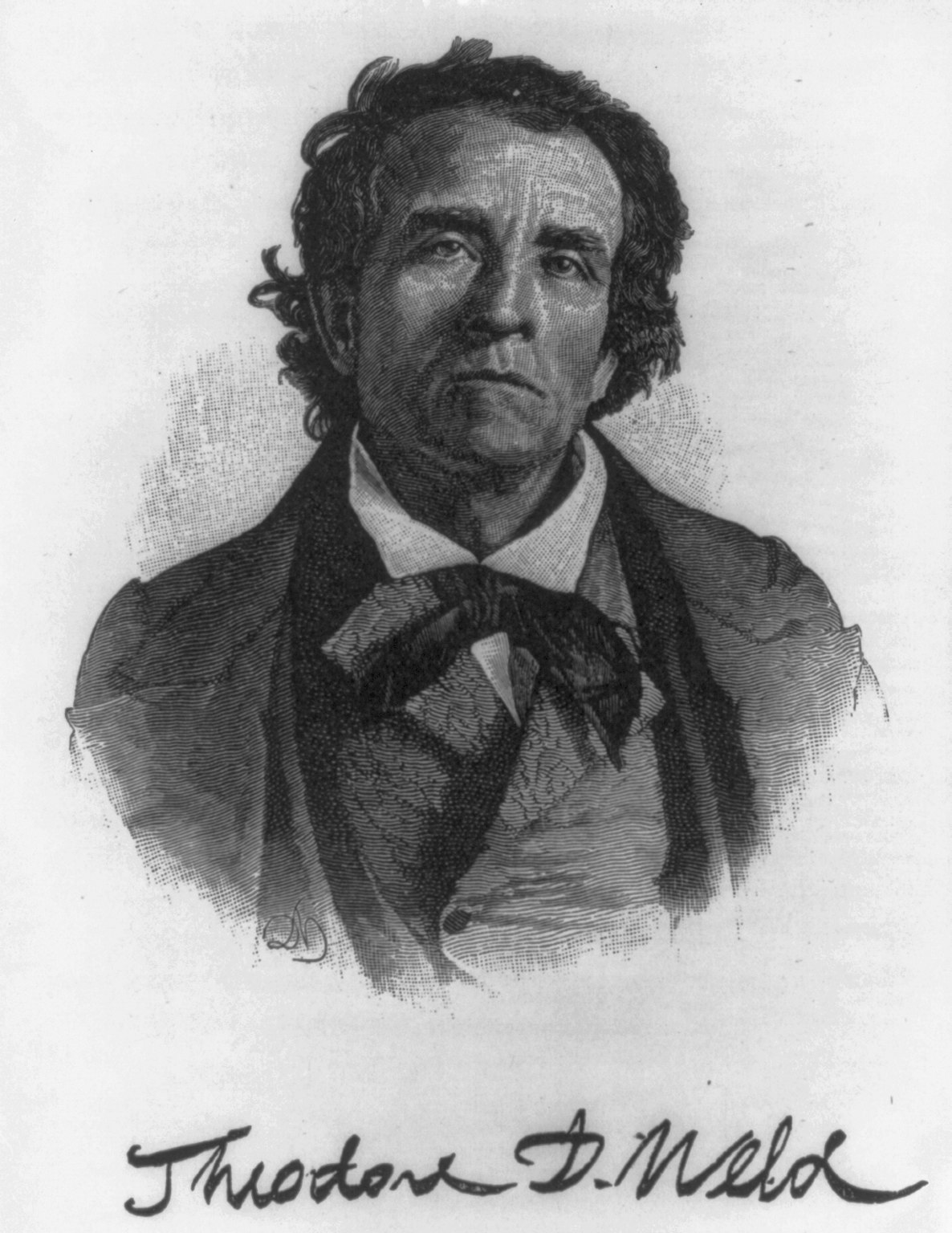 Title: Theodore Dwight Weld, 1803-1895, bust portrait, facing slightly left Abstract/medium: 1 print : wood engraving.